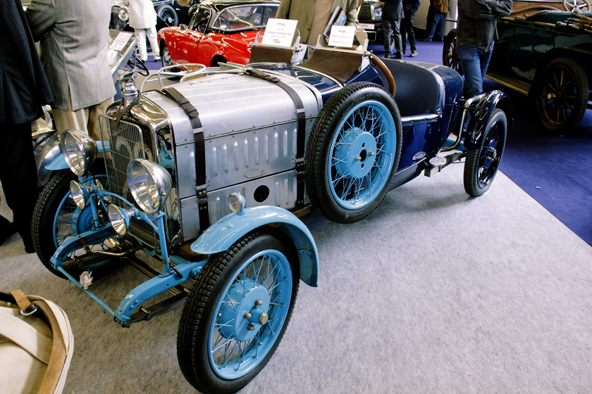 1928 Benova Typ B3 Biplace Sport